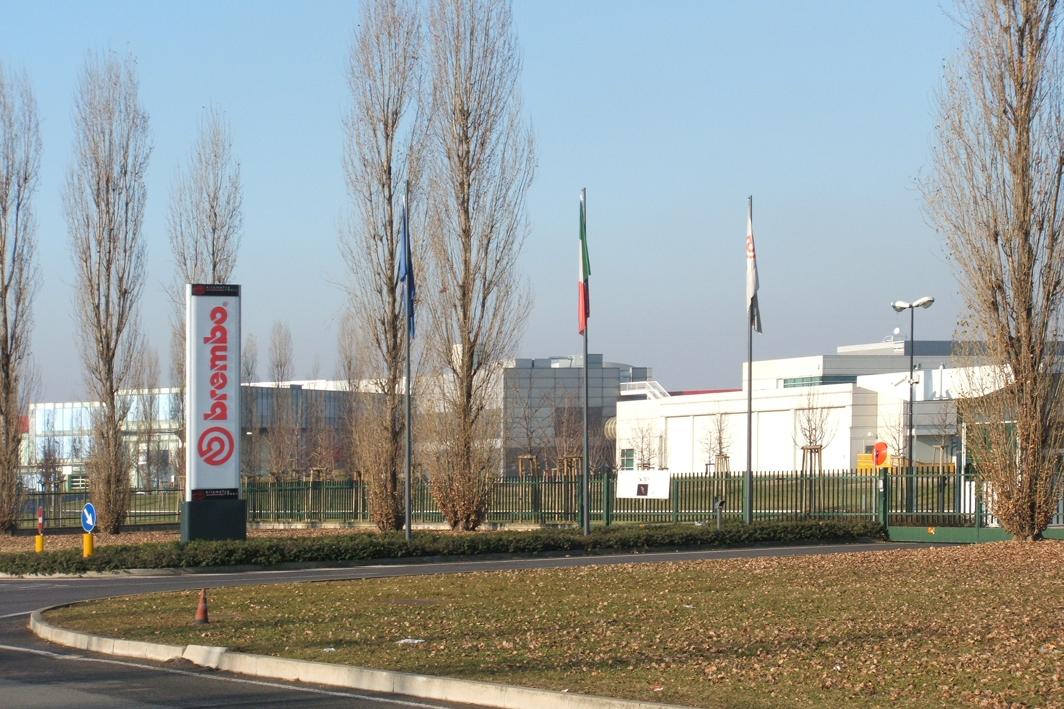 Brembo offices, Stezzano, Bergamo, Lombardy, Italy